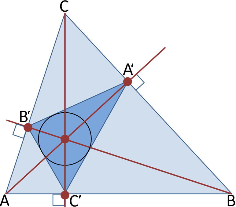 The ortic triangle